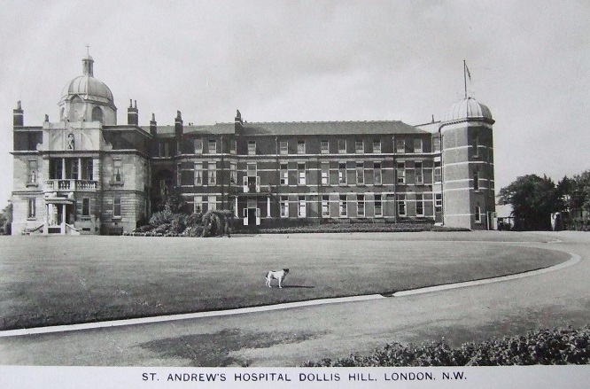 Old Postcard of St Andrew's Hospital, Dollis Hill